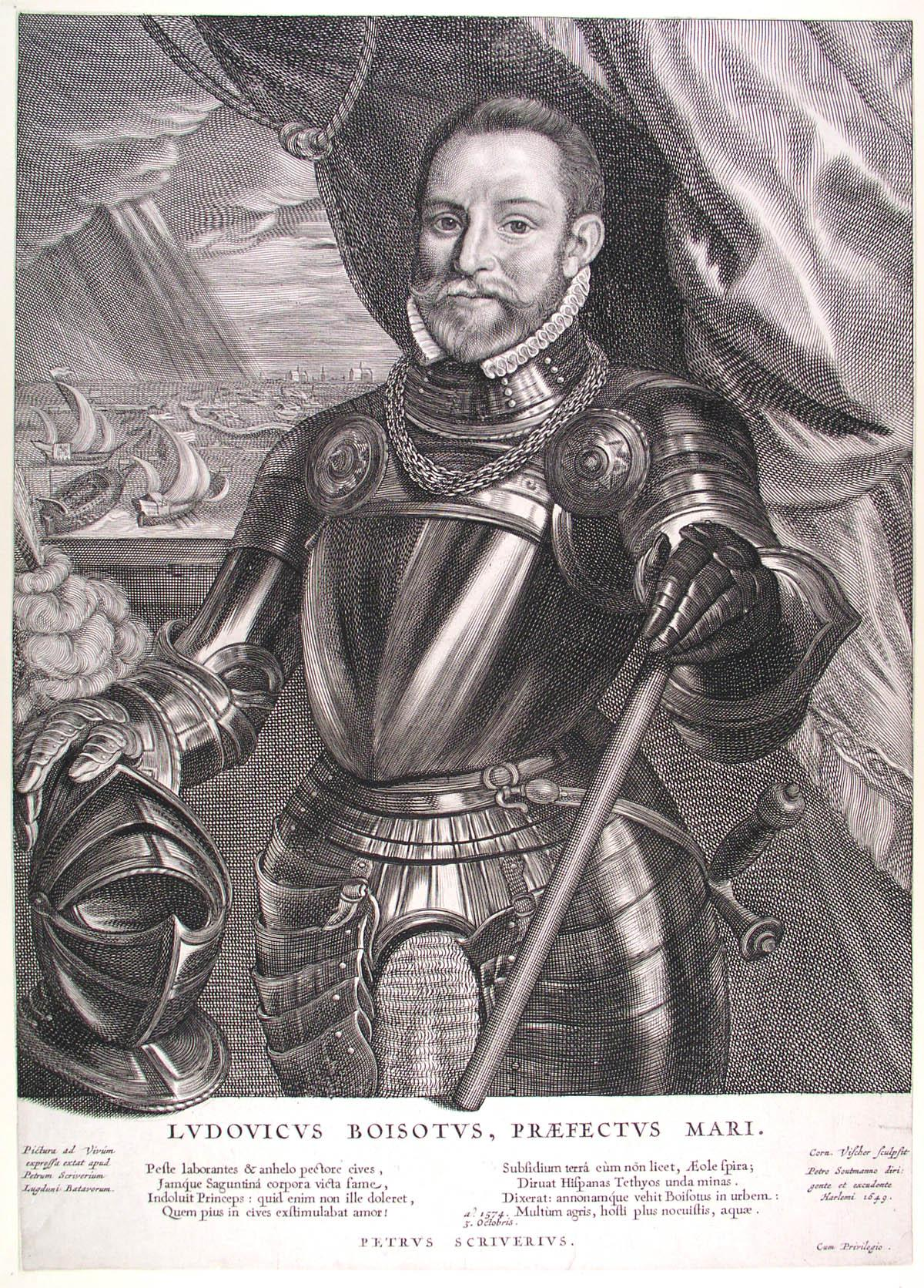 Jonkeer Lodewijk de Boisot (Lord Lodewijk de Boisot). Engraving. 358 × 291 mm. Rotterdam, Prentenkabinet Museum Boijmans Van Beuningen (inv.no. BdH 11812 (PK)).